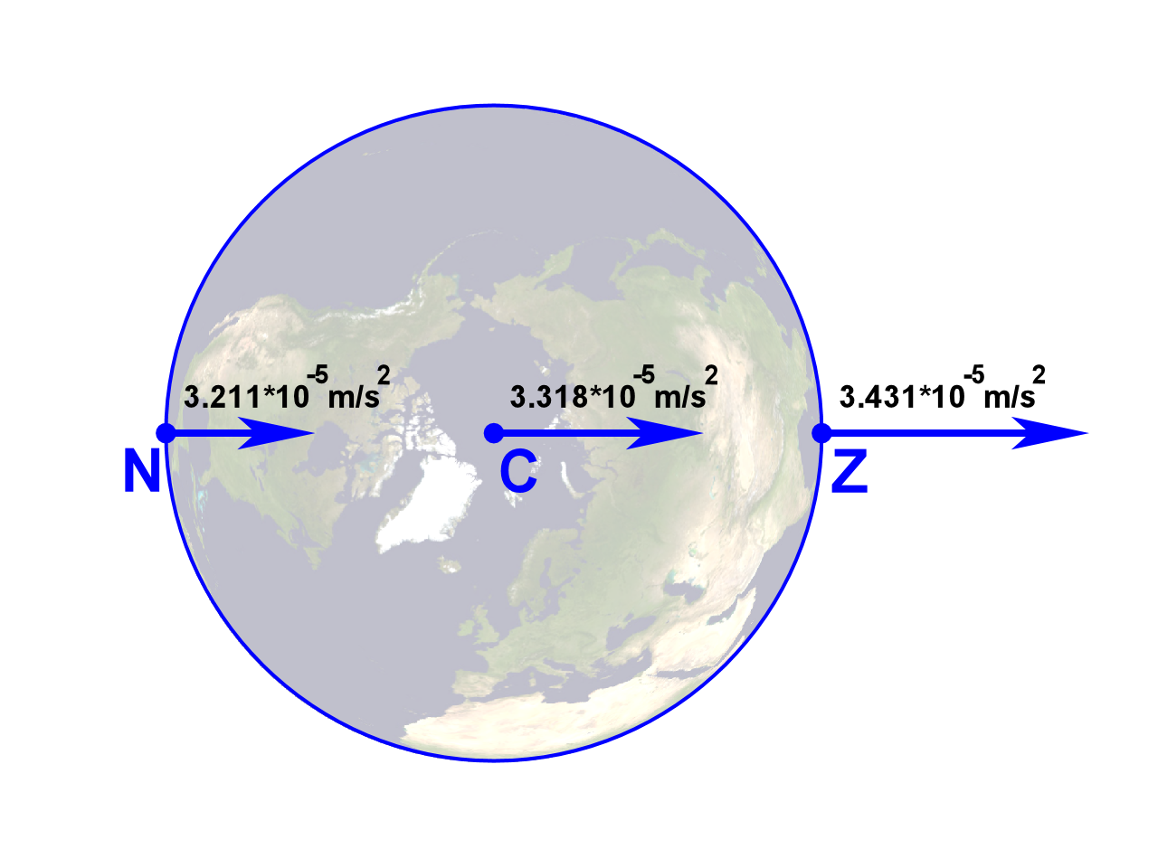 Gravitational attraction of the moon on several places on earth: Z = zenith, N = nadir, C = centre of earth. Relative sizes of arrows are exaggerated, true values (for mean distance of moon) are indicated.